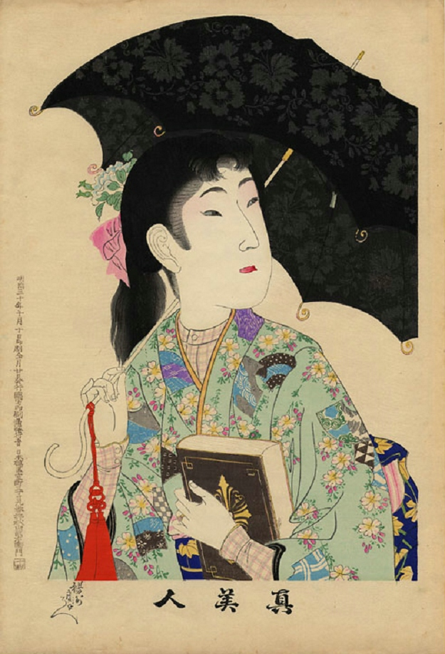 A woman holding a Western-style umbrella and a Western-style book (possibly a bible?)